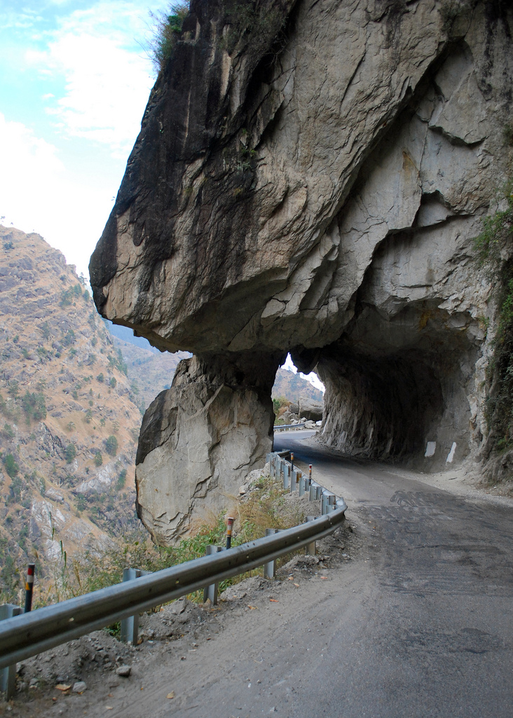 Hindustan-Tibet Highway in Kinnaur